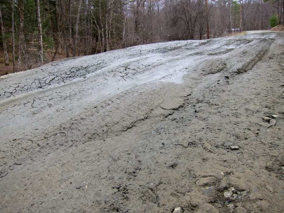 Frost heaves on Bragg Hill Road during spring thaw in Norwich, Vermont on March 23, 2012.